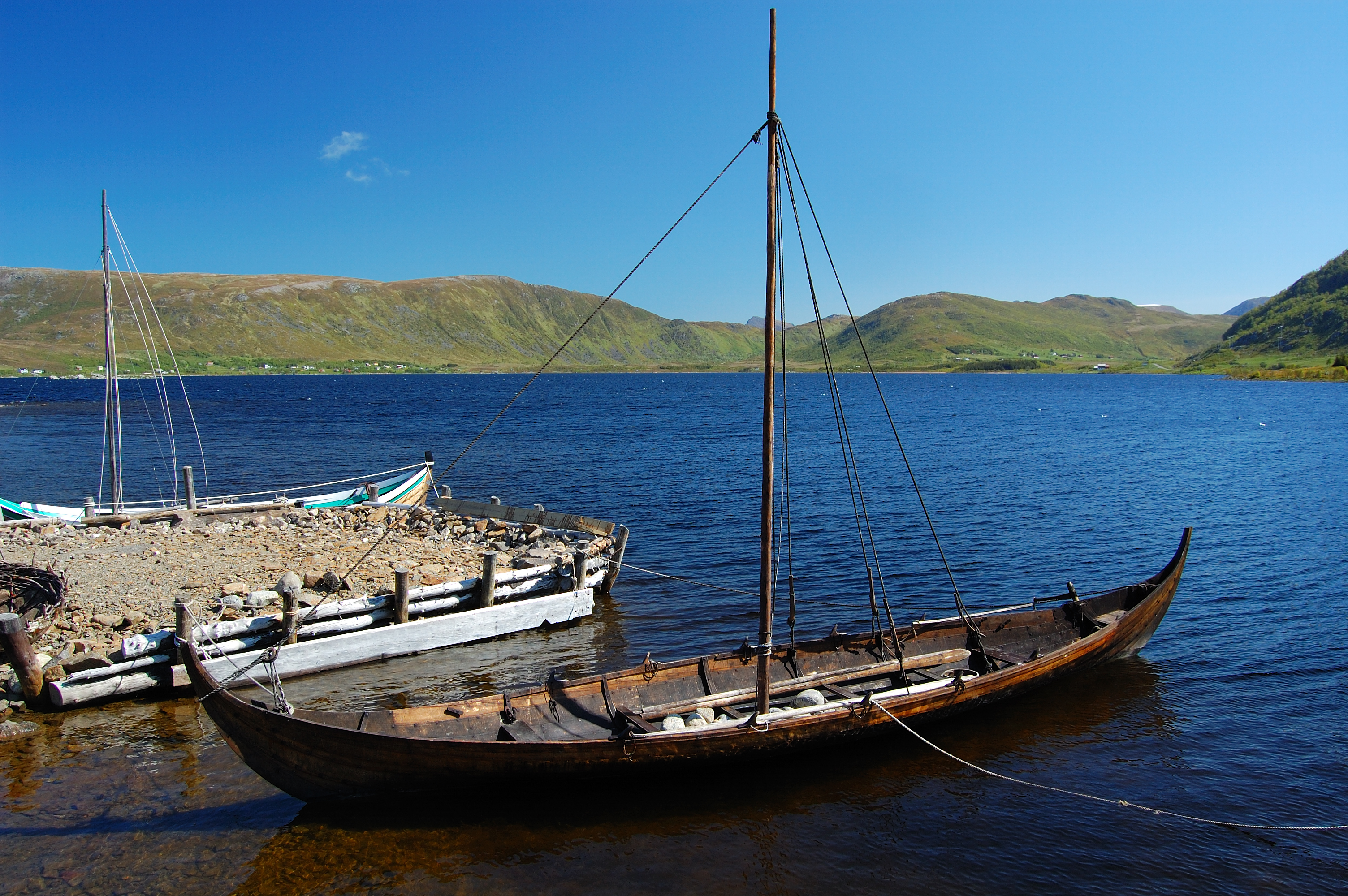 The Viking museum in Borg, Lofoten, Norway.